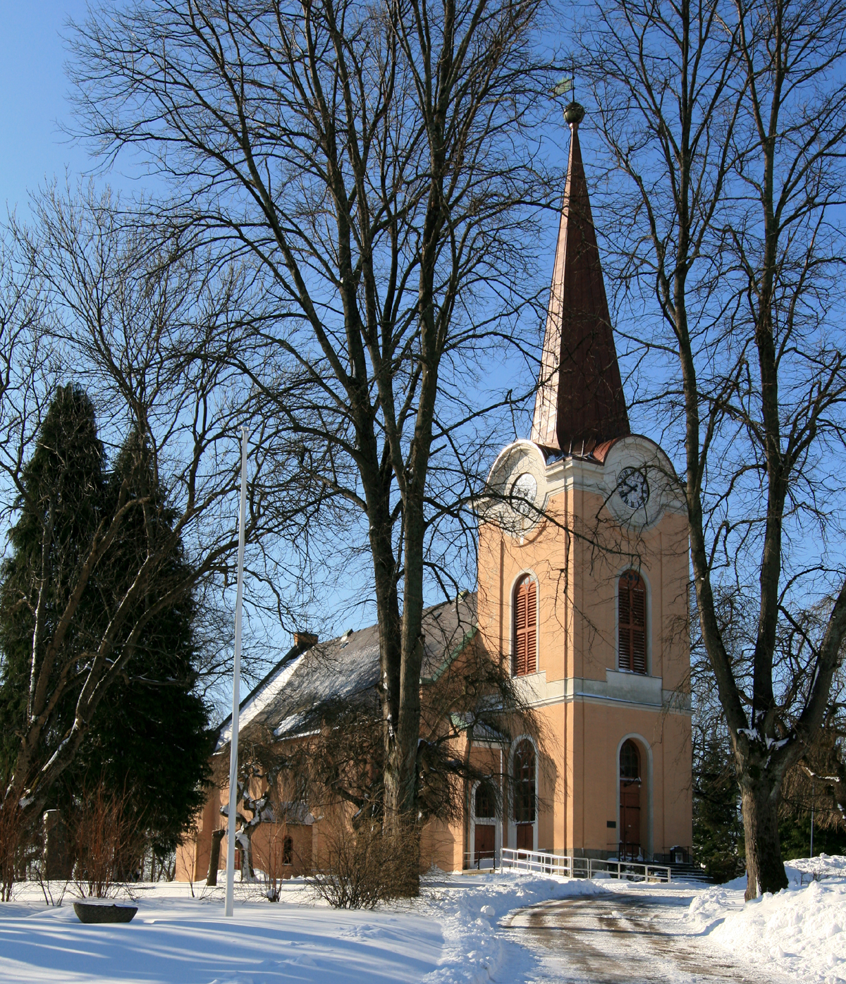 Larvik church, Norway.